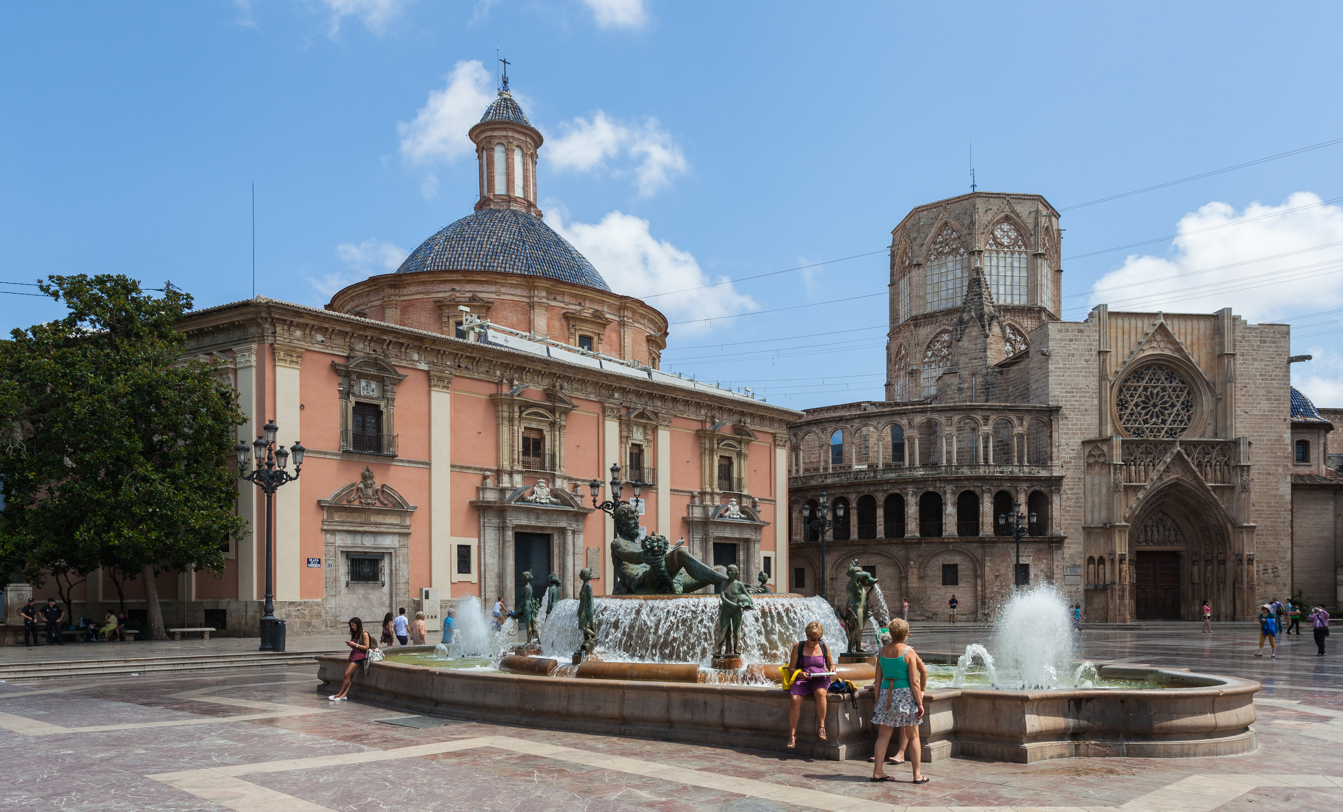 Square of the Virgin, Valencia, Spain